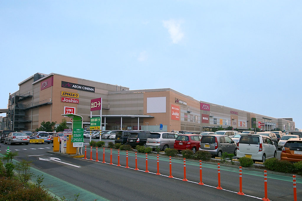 Aeon Mall Urawa-Misono shopping mall in Midori-ku, Saitama, Japan